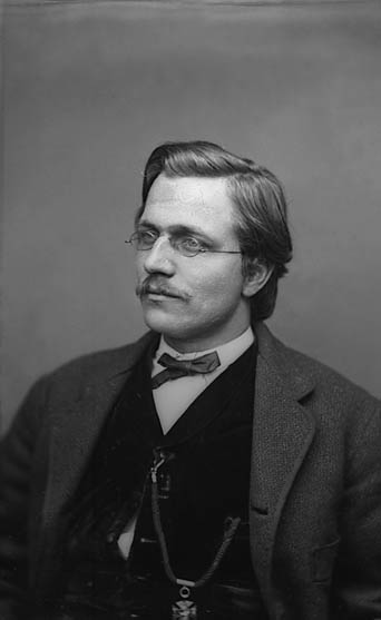 1 negative : glass, wet collodion, b&w ; 11 x 16.5 cm.